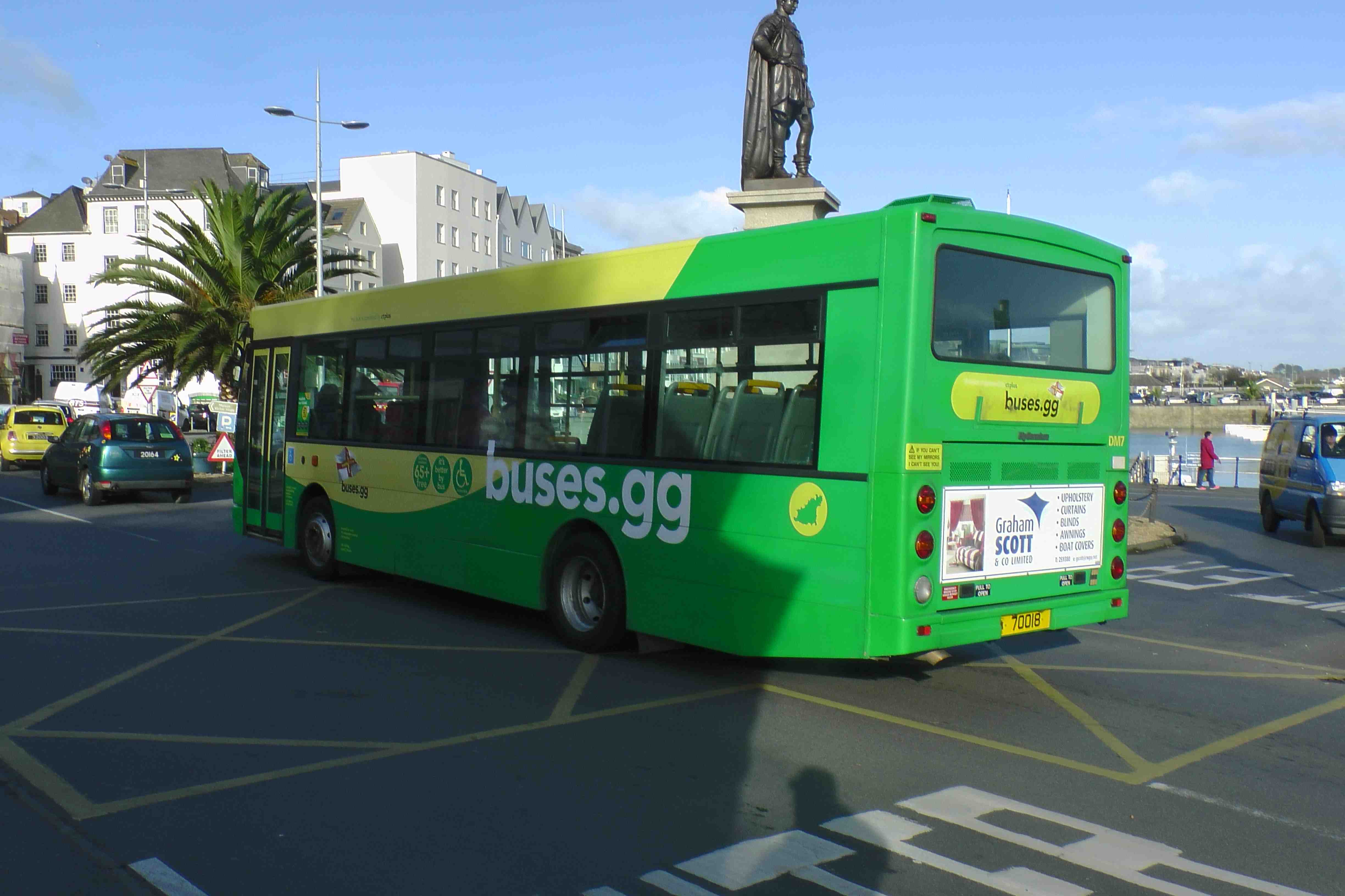 CT Bus in Guernsey